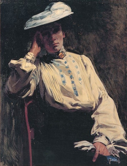 European Lady